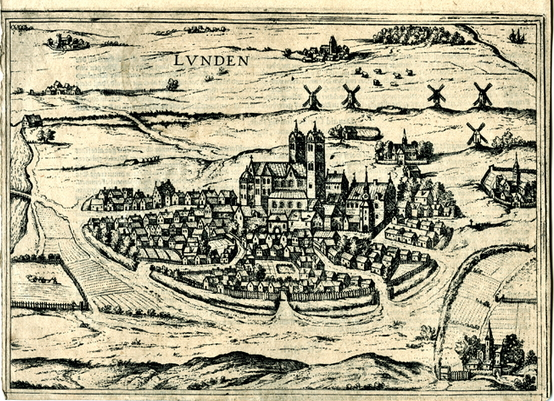 Lund c. 1580, copperprint in Civitates orbis terrarrum